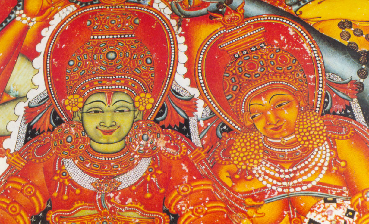 Pundareekapuram mural painting